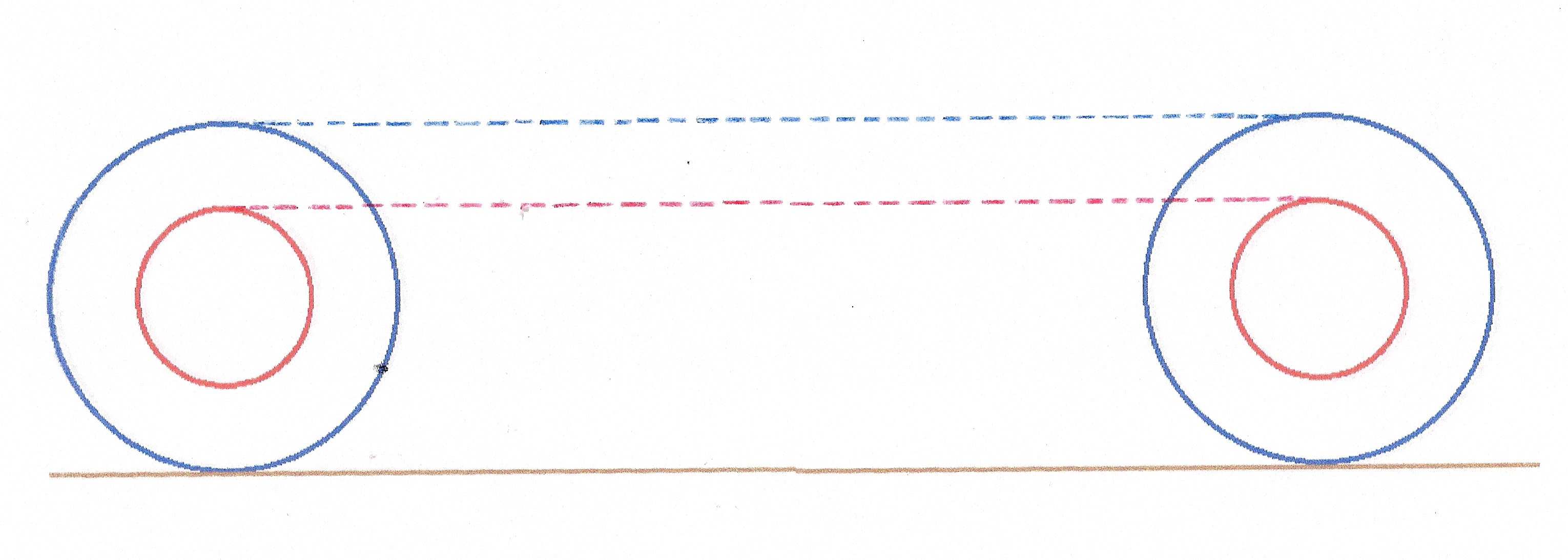 AristotleWheel4